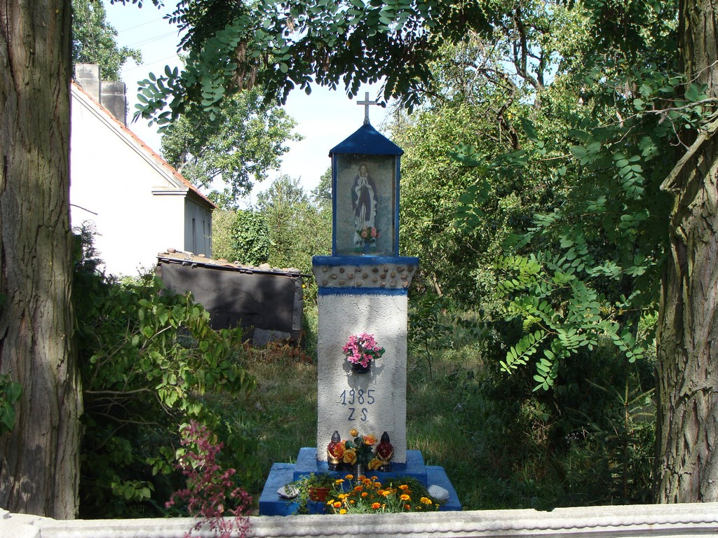 Gaj, roadside shrine.